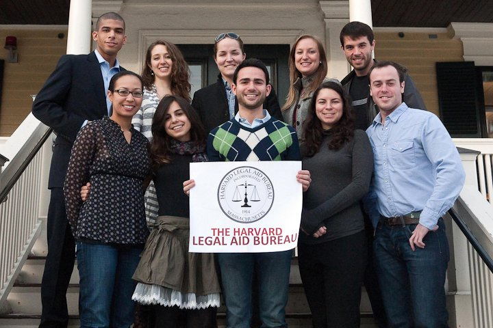 The 2011 HLAB Board of Directors